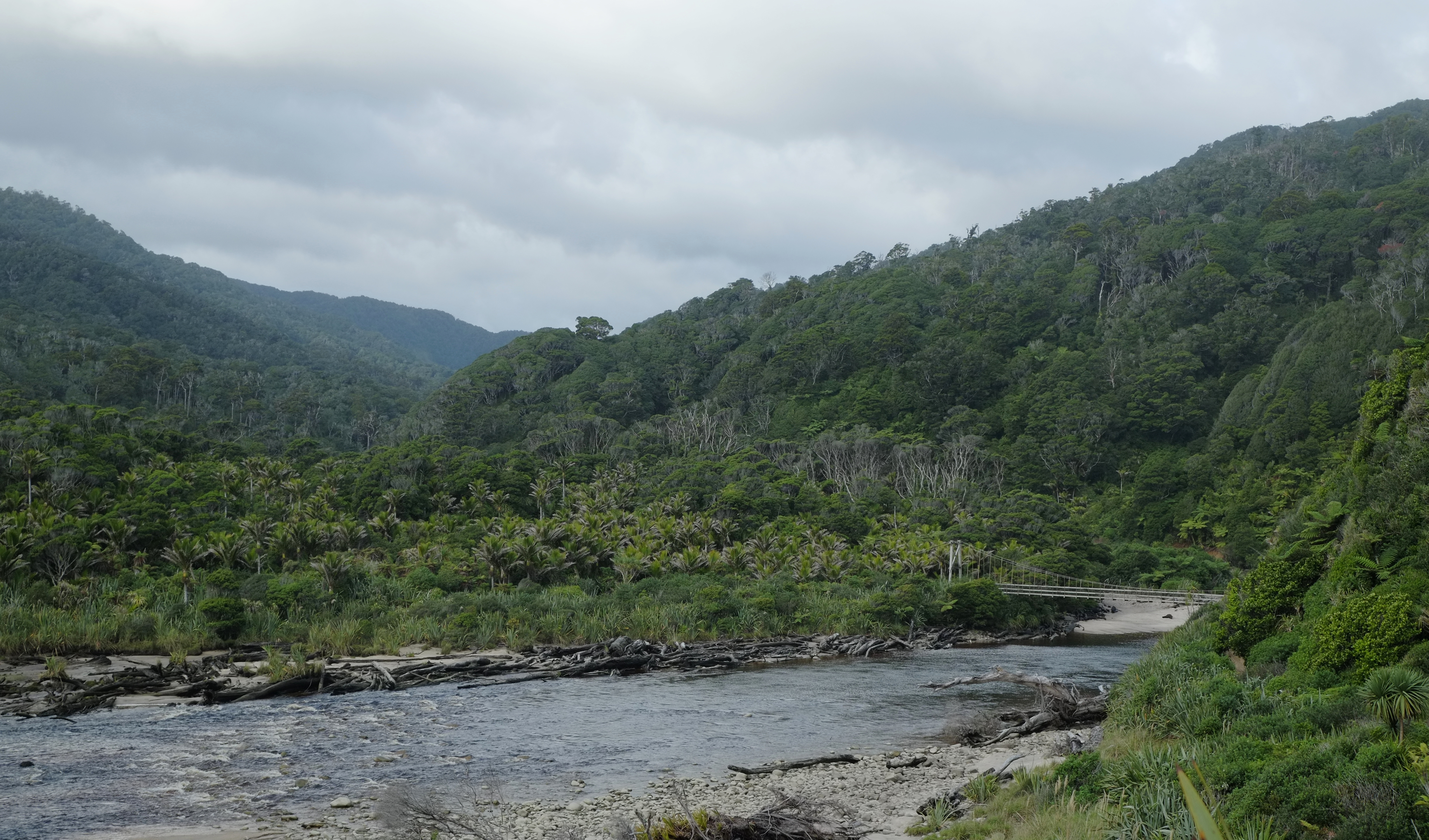 Kohaihai River at the end of Heaphy Track in Kahurangi National Park